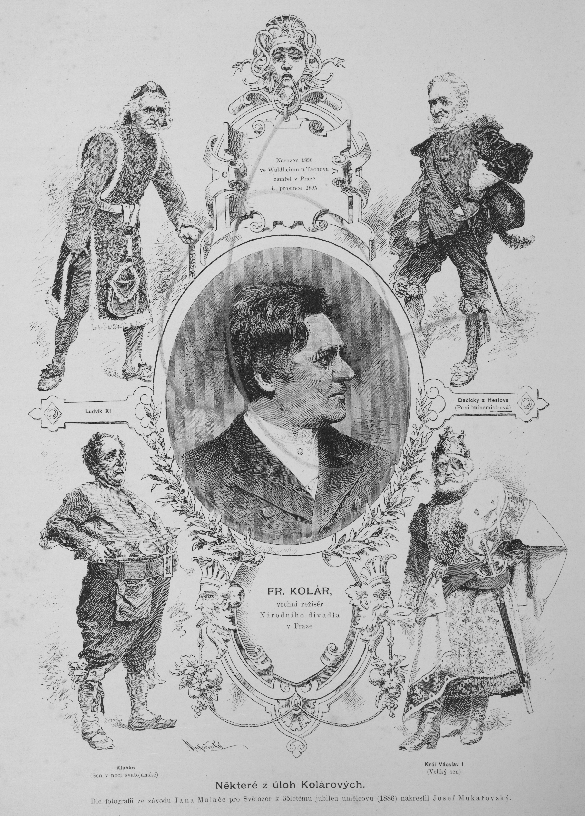 A collage dedicated to actor František Karel Kolár (1830 - 1895), showing his portrait in the middle and his various roles around.